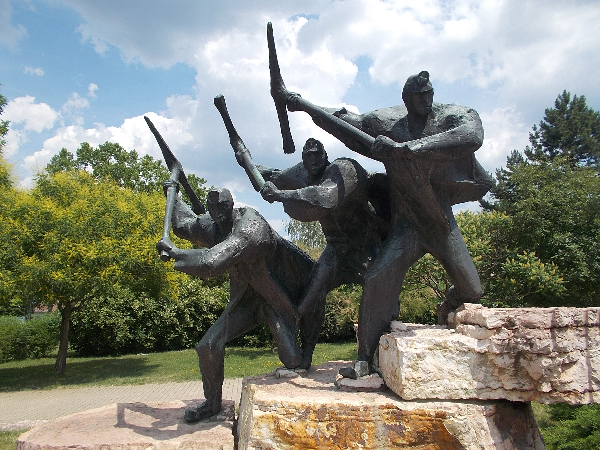 Miners monument by Károly Vasas and Béla Pintér (architect) /1976 bronze statue, three men with mining hammer on limestone slabs or base/ This shows the hard works of coal miners. At Szent Borbála square, Oroszlány, Komárom-Esztergom County.